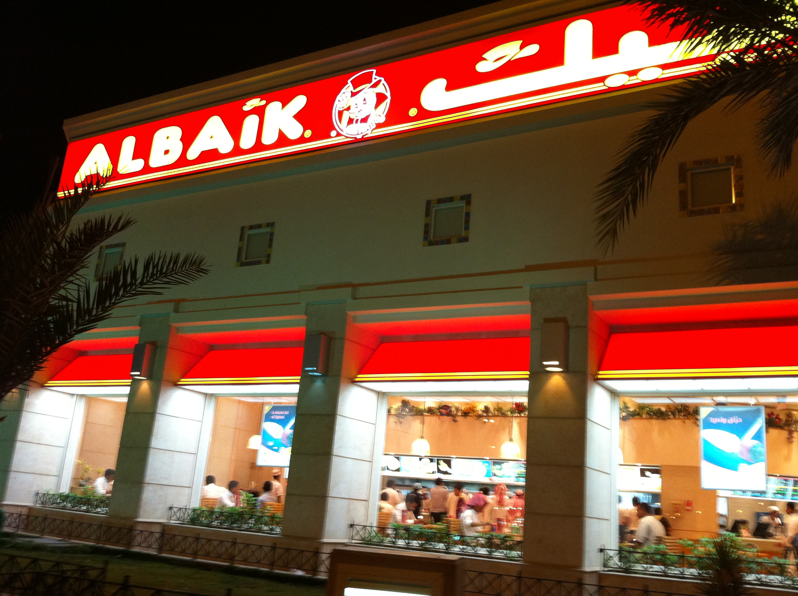 Fast food restaurants Al Baik in Medin